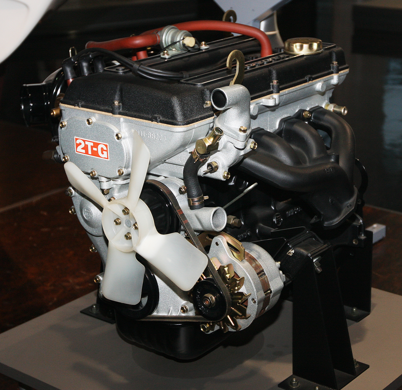 1970 Toyota 2T-G Type engine. L4 1,588cc